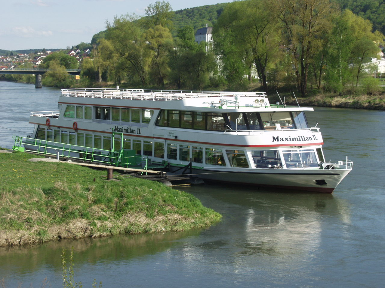 Tour boat Maximilian II on river Danube in Kelheim